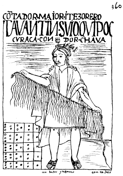 Sketch of a Quipucamayoc from El primer nueva corónica y buen gobierno (The First New Chronicle and Good Government), a chronicle of Inca history by the indigenous Inca historian Felipe Guaman Poma de Ayala (ca. 1535–1616). Shown on the lower left side is a yupana.